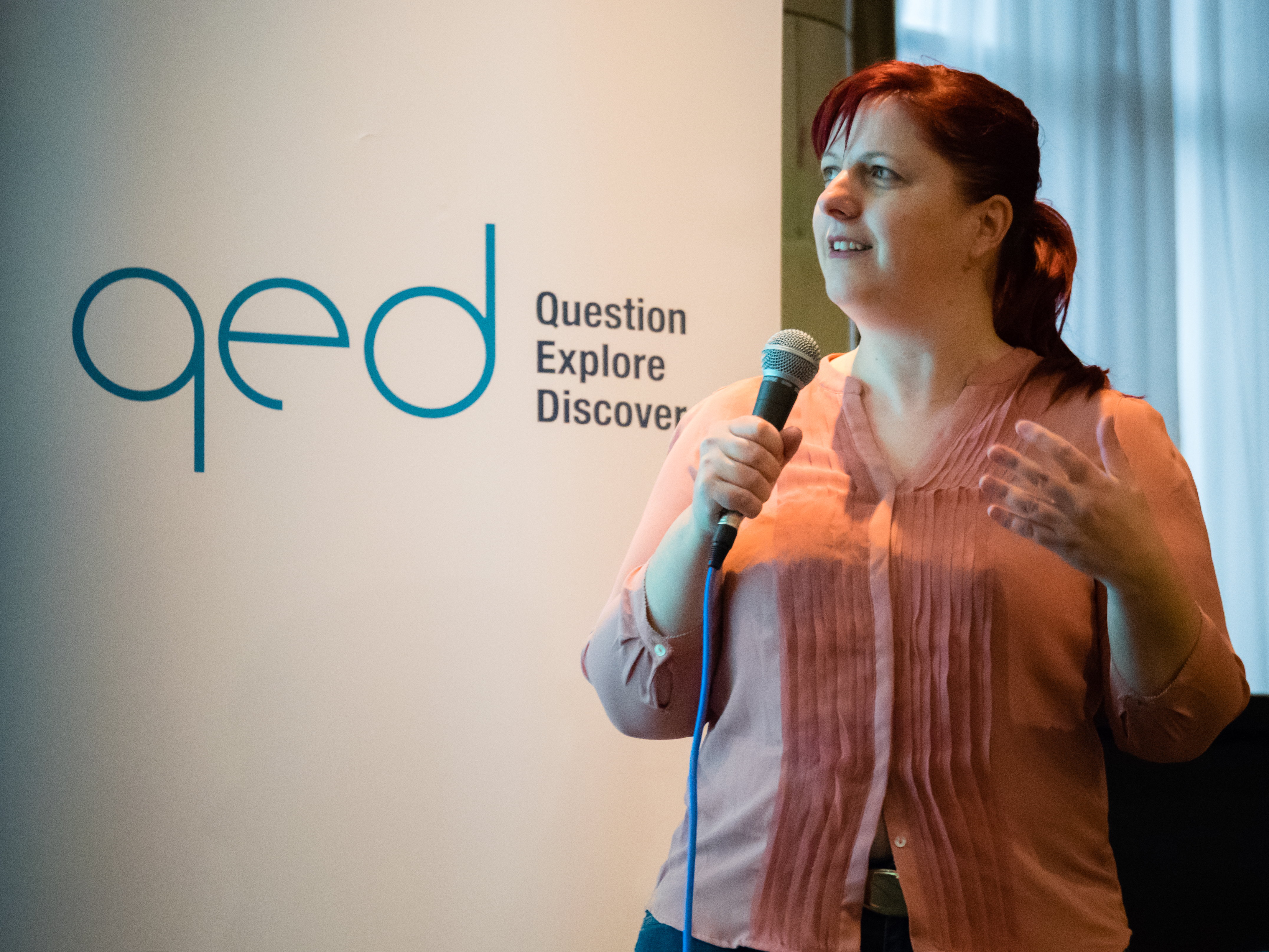 Diana Barbosa speaking during the skepticamp at the QED: Question Explore Discover conference at the Victoria Hotel, Manchester on 24/04/2015.